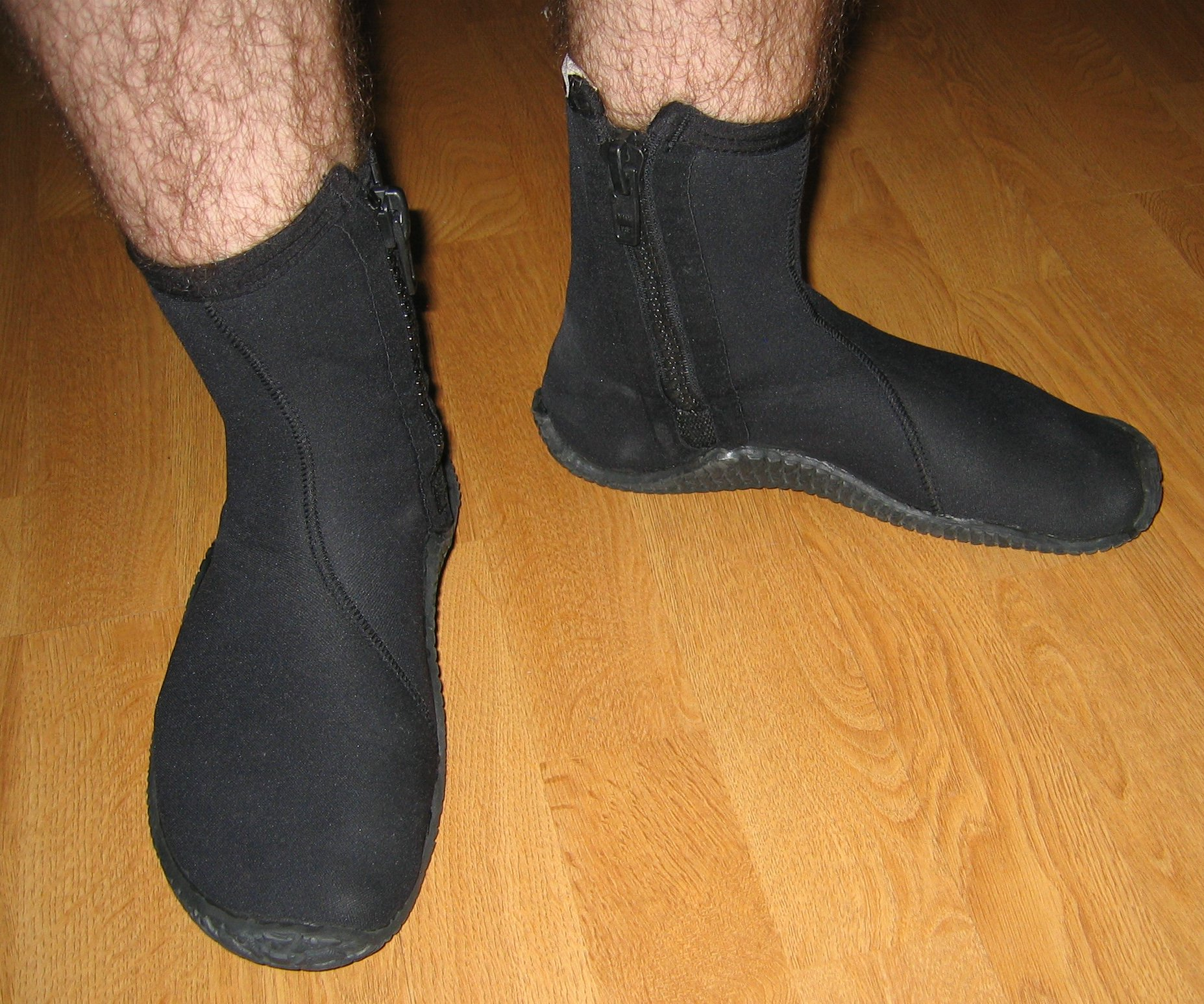 A picture I took of myself wearing a pair of neoprene wetsuit boots (bootees). Worn to show the zippers and the edges of the reinforced sole. --Douglas Whitaker 21:37, 19 July 2006 (UTC)